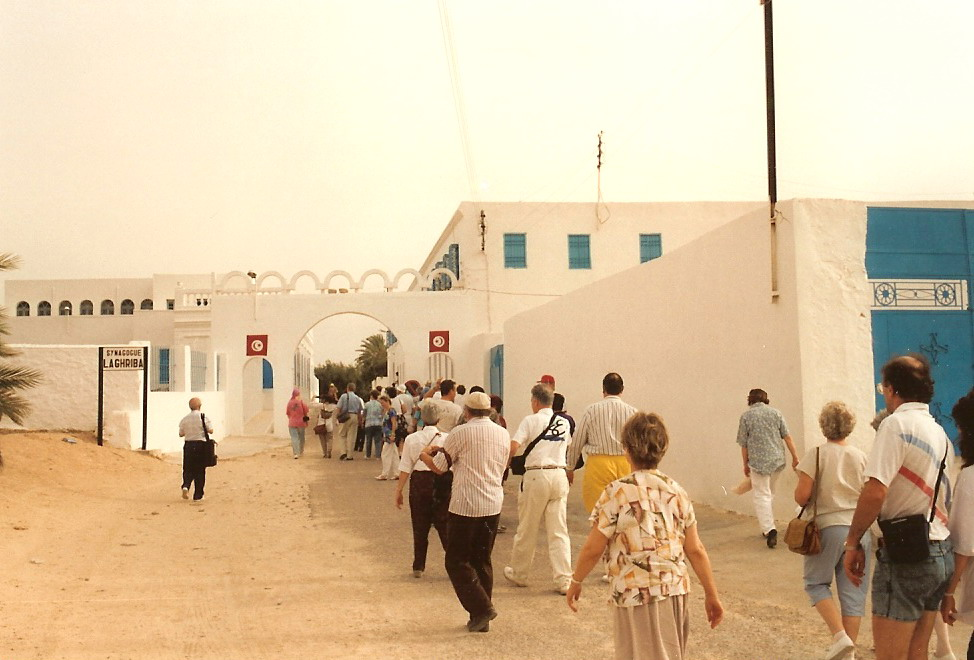 Entrance of the Ghriba synagogue in Djerba